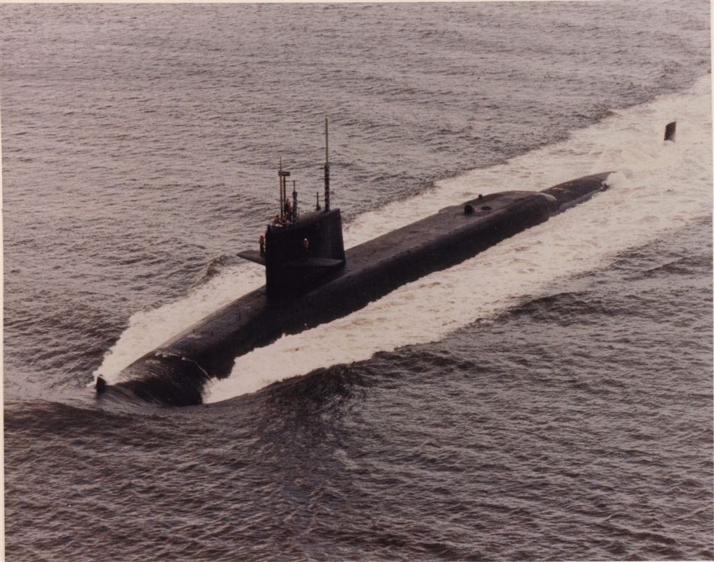 United States Navy fleet ballistic missile submarine , probably while on sea trials.